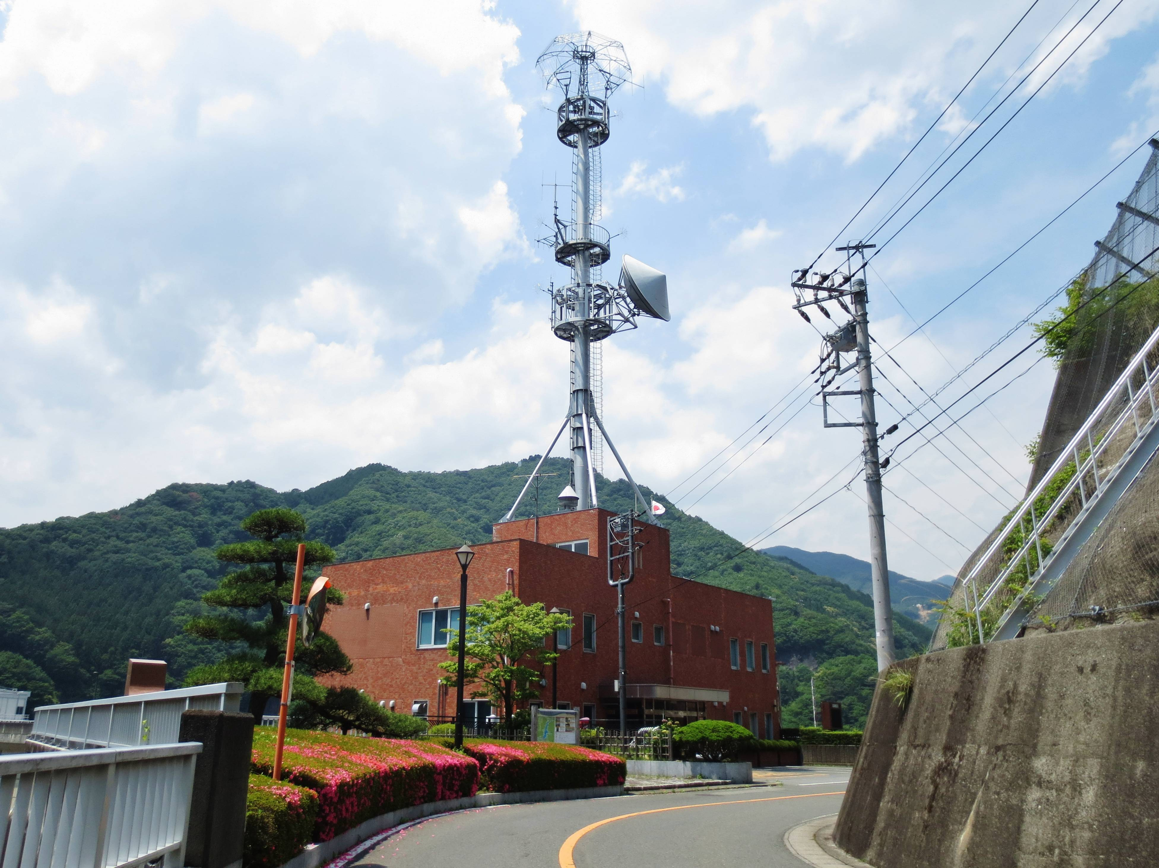 Kusaki Dam office.